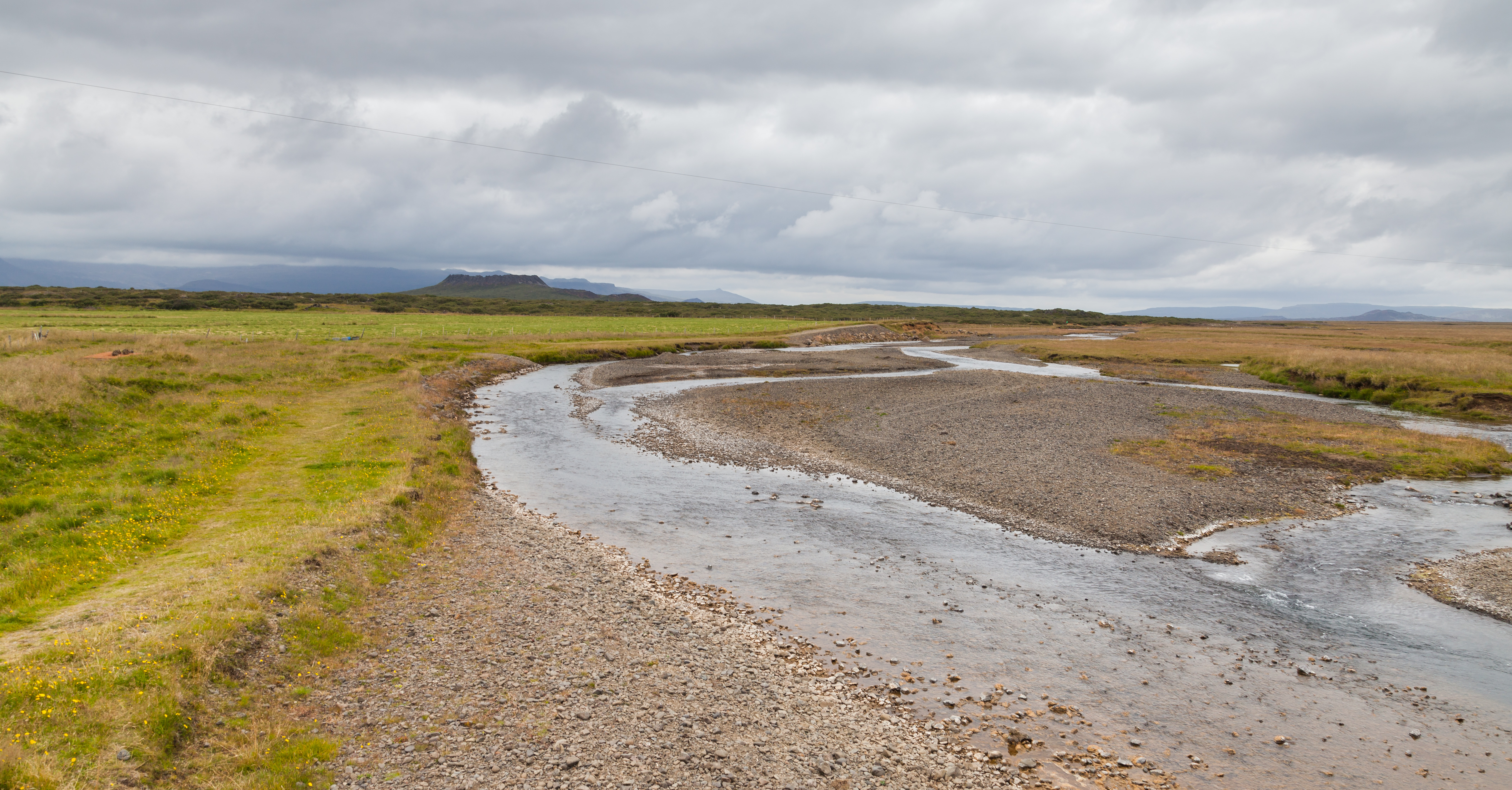 River next to the Eldborg crater, Vesturland, Iceland